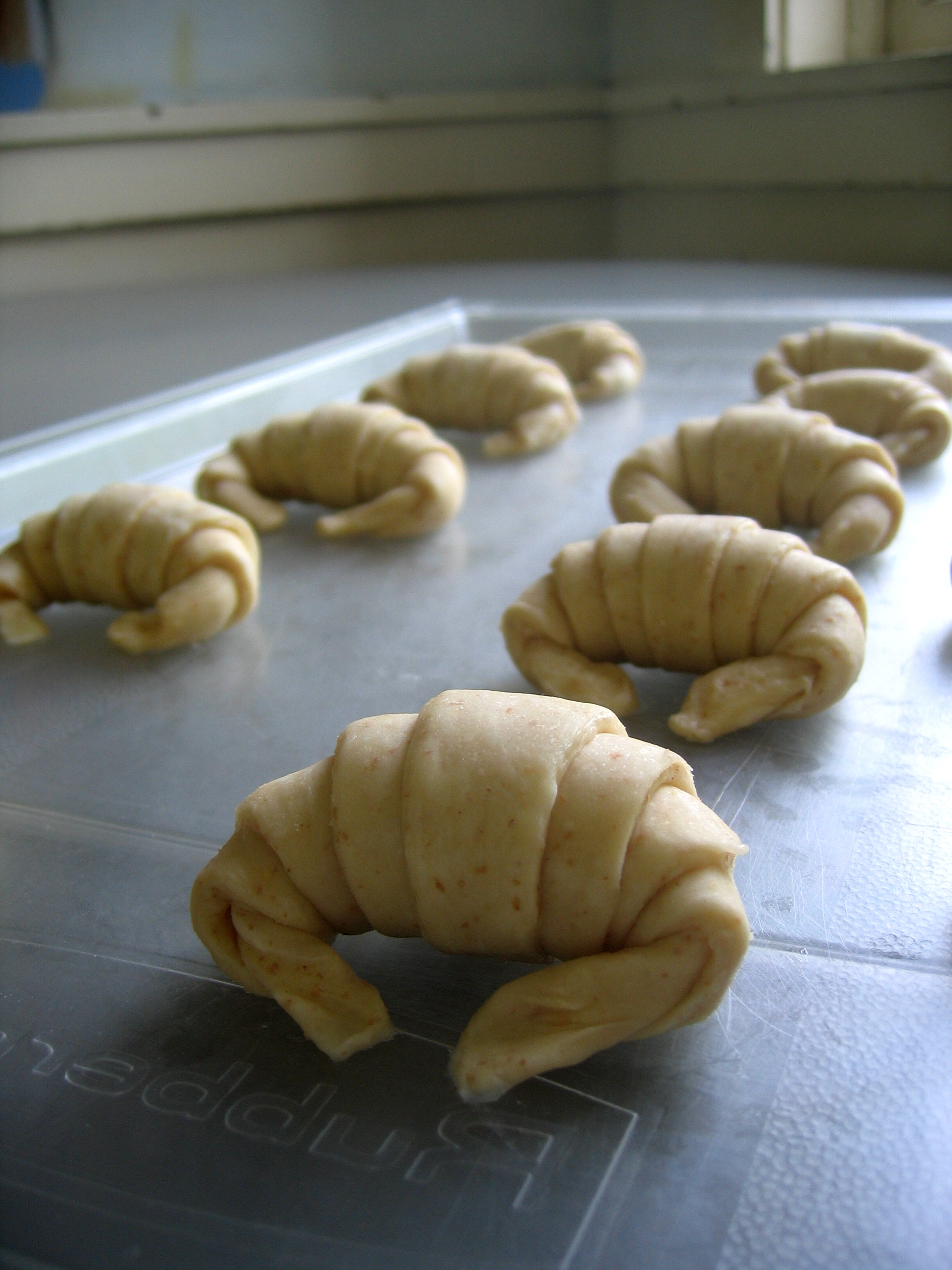 Croissants proofing in my kitchen